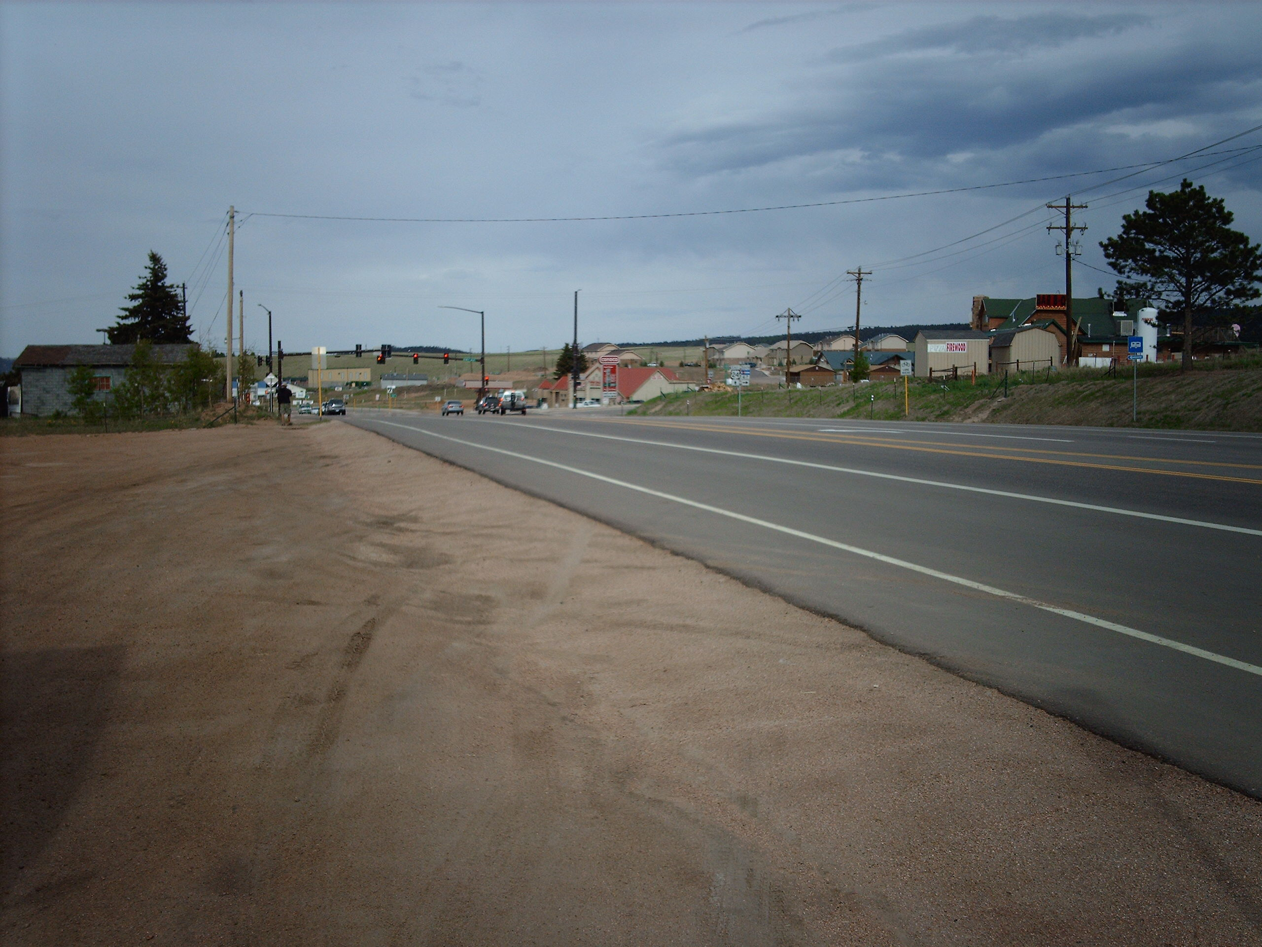 Divide from Ute Pass. Taken by me.